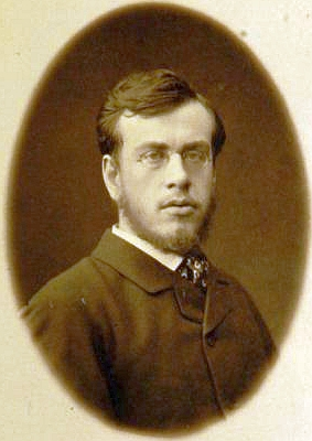 Sergey Lvovovich Tolstoy, son of Leo Tolstoy.